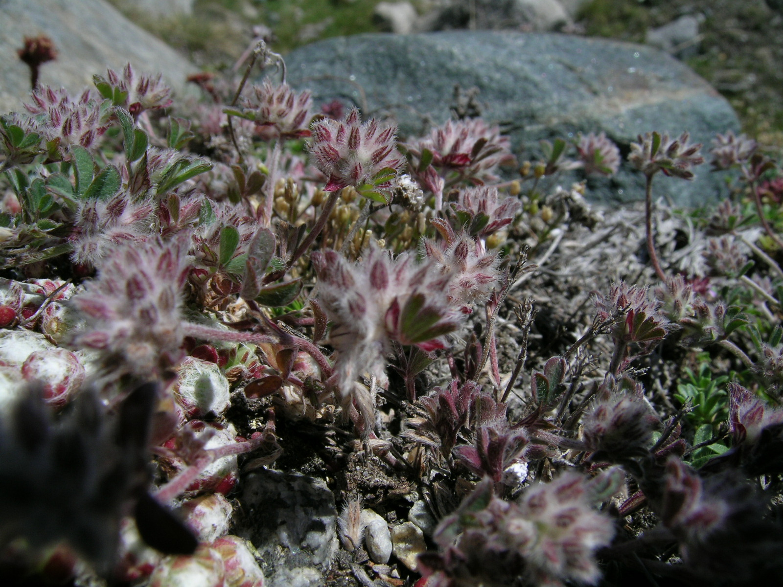 Trifolium saxatile Zermatt, beneath Gornergrat (Kanton Wallis, Switzerland), 2800 m Author: Roland Teuscher – own photograph Date: 1.08.06